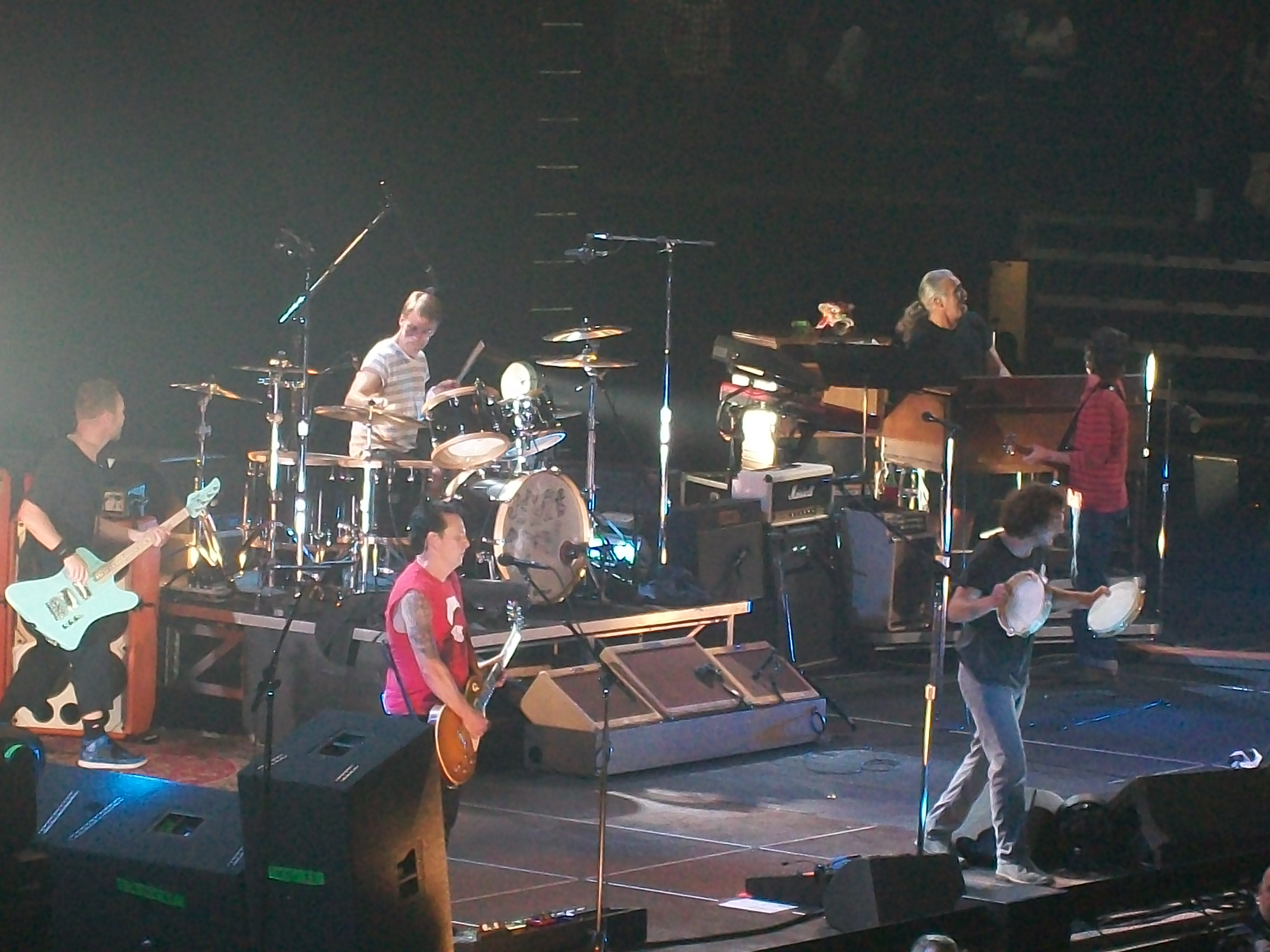 Pearl Jam in Hamilton, Ontario on September 15, 2011